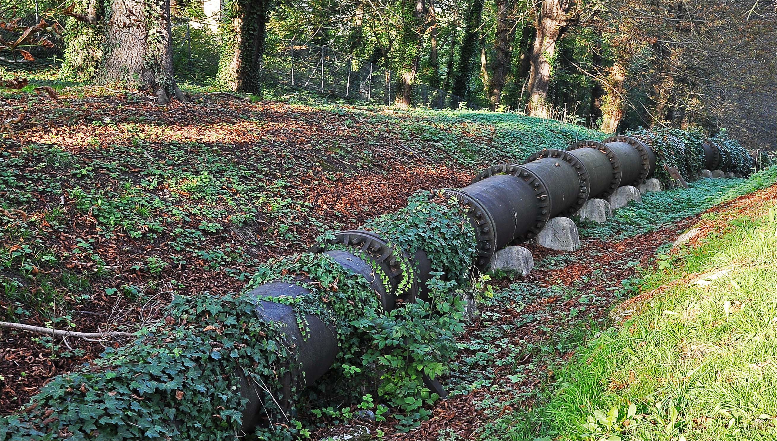 Marly Machines. Piping in cast iron on the hill of Bougival.